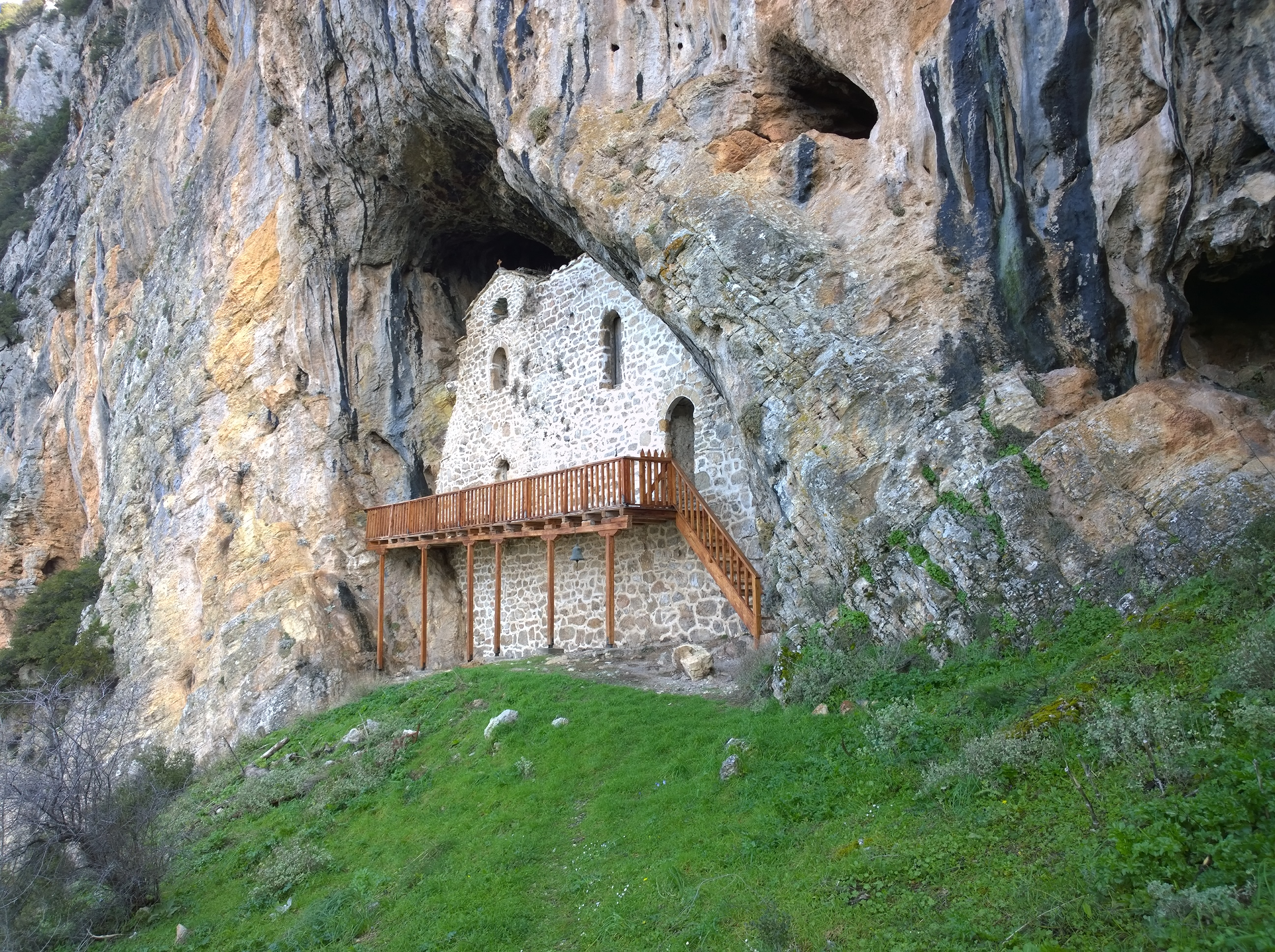 Ag. Ierousalem above Amfikleia, March 2015